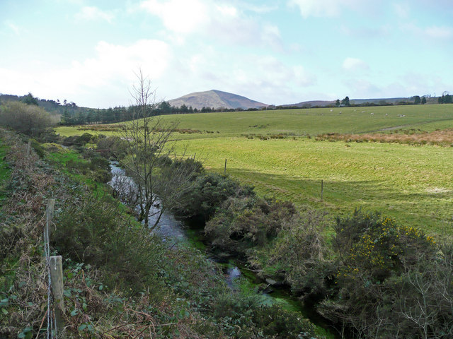 Bann River and Annagh Hill View west from Tinnabaun.